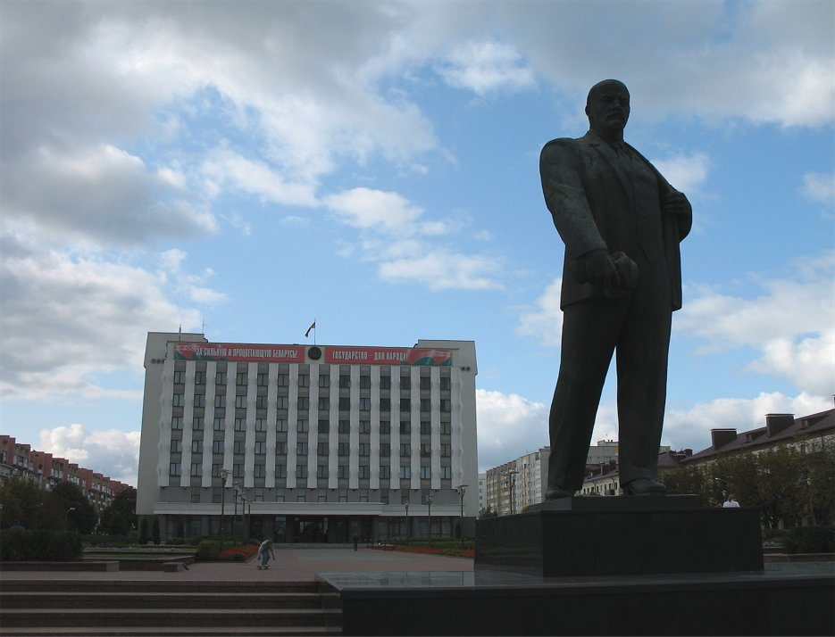 Bobruisk (Belarus) city hall and statue of Lenin.